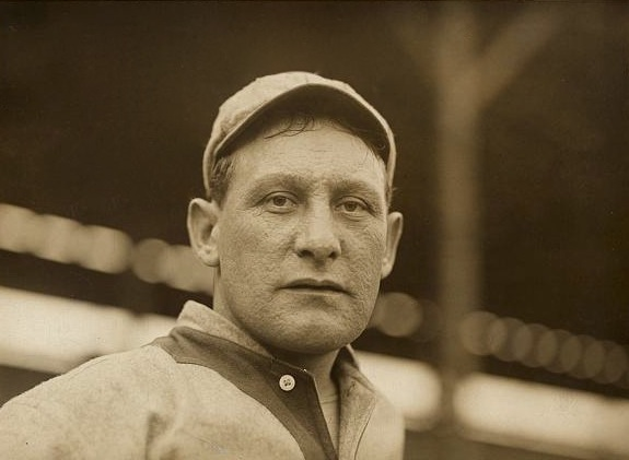 Photograph shows Germany (Herman "Dutch") Schaefer, infielder/outfielder for the Washington Nationals, head-and-shoulders portrait, facing front.